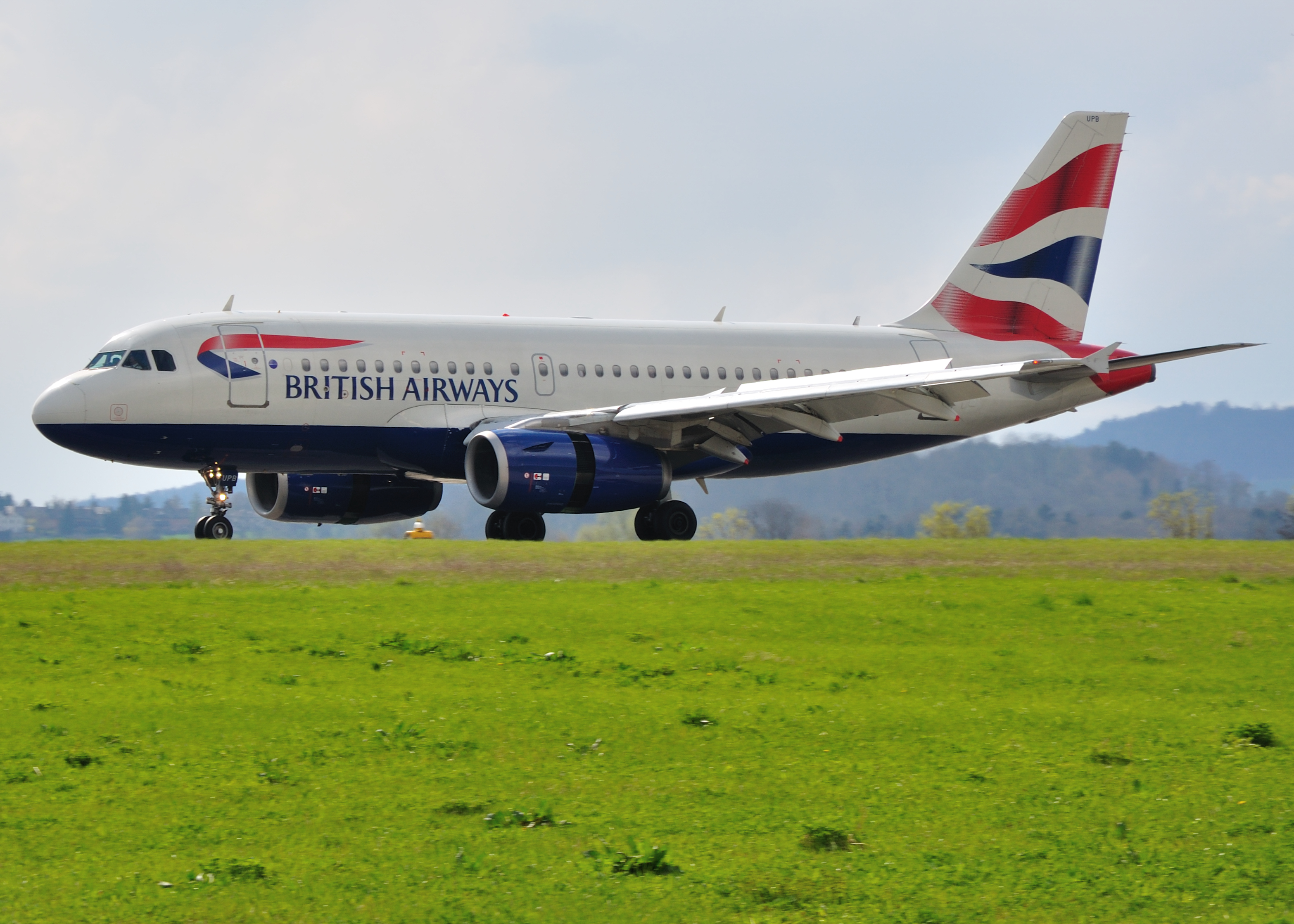 Switzerland, Canton of Zürich, Zurich International Airport